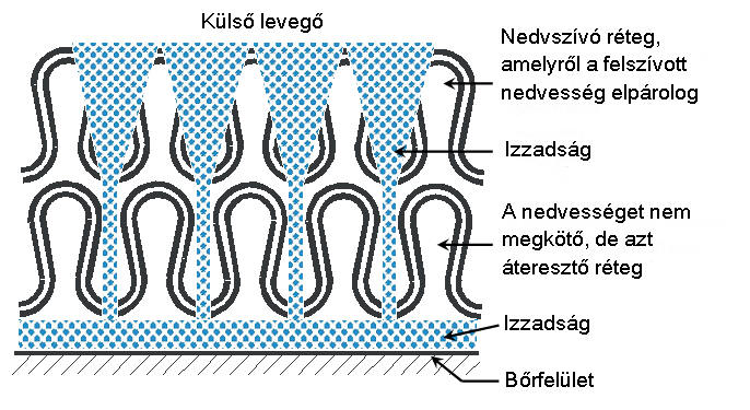 Scheme of a two-layer knitted fabric for removing the perspiration from the skin surface